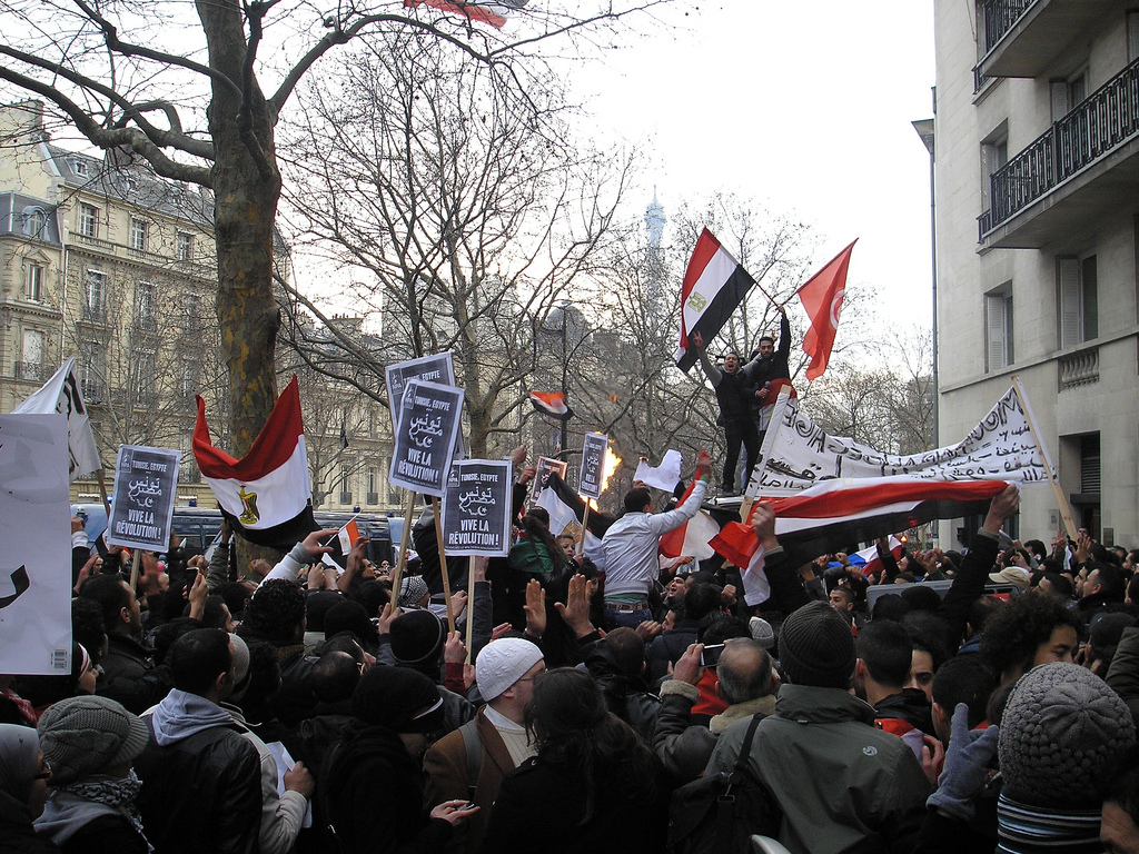 Solidarity protest near Embassy of Egypt in Paris, 29 January 2011.